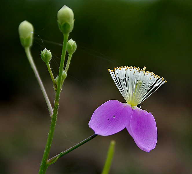 Cleome chelidonii at Pocharam lake, Andhra Pradesh, India.